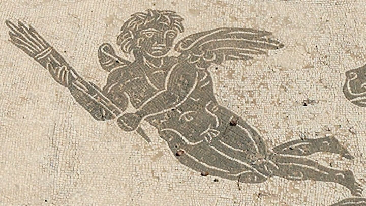 Hymenaios. Room 3 of the Baths of Neptune, Ostia Antica, Latium, Italy.